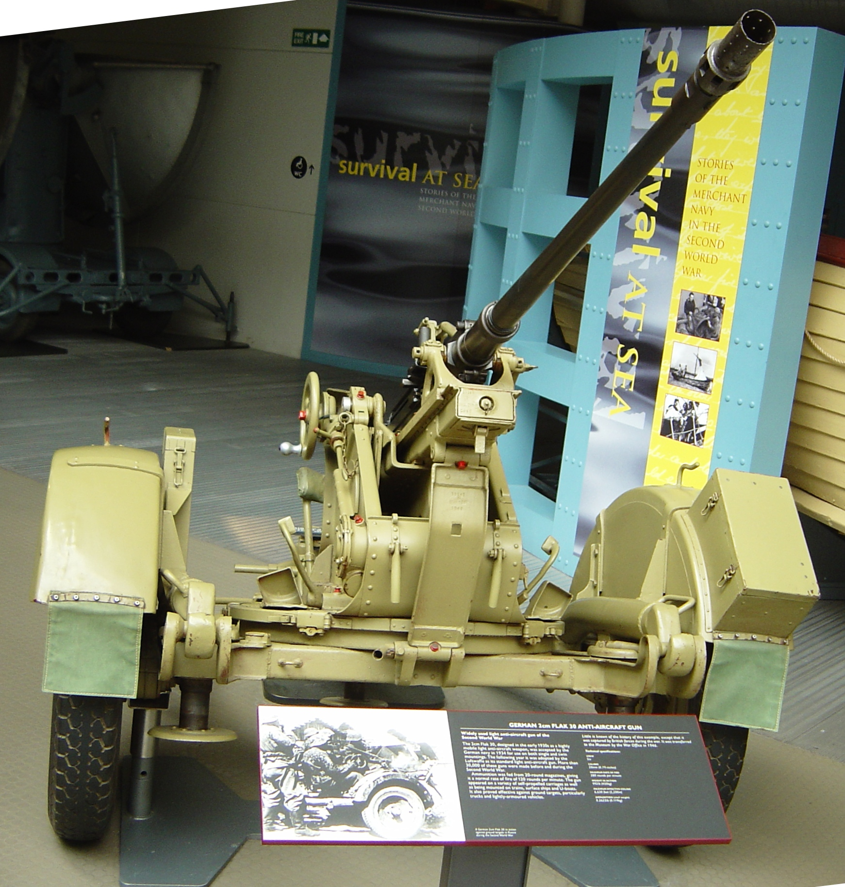 2-cm-Flak 30 at Imperial War Museum